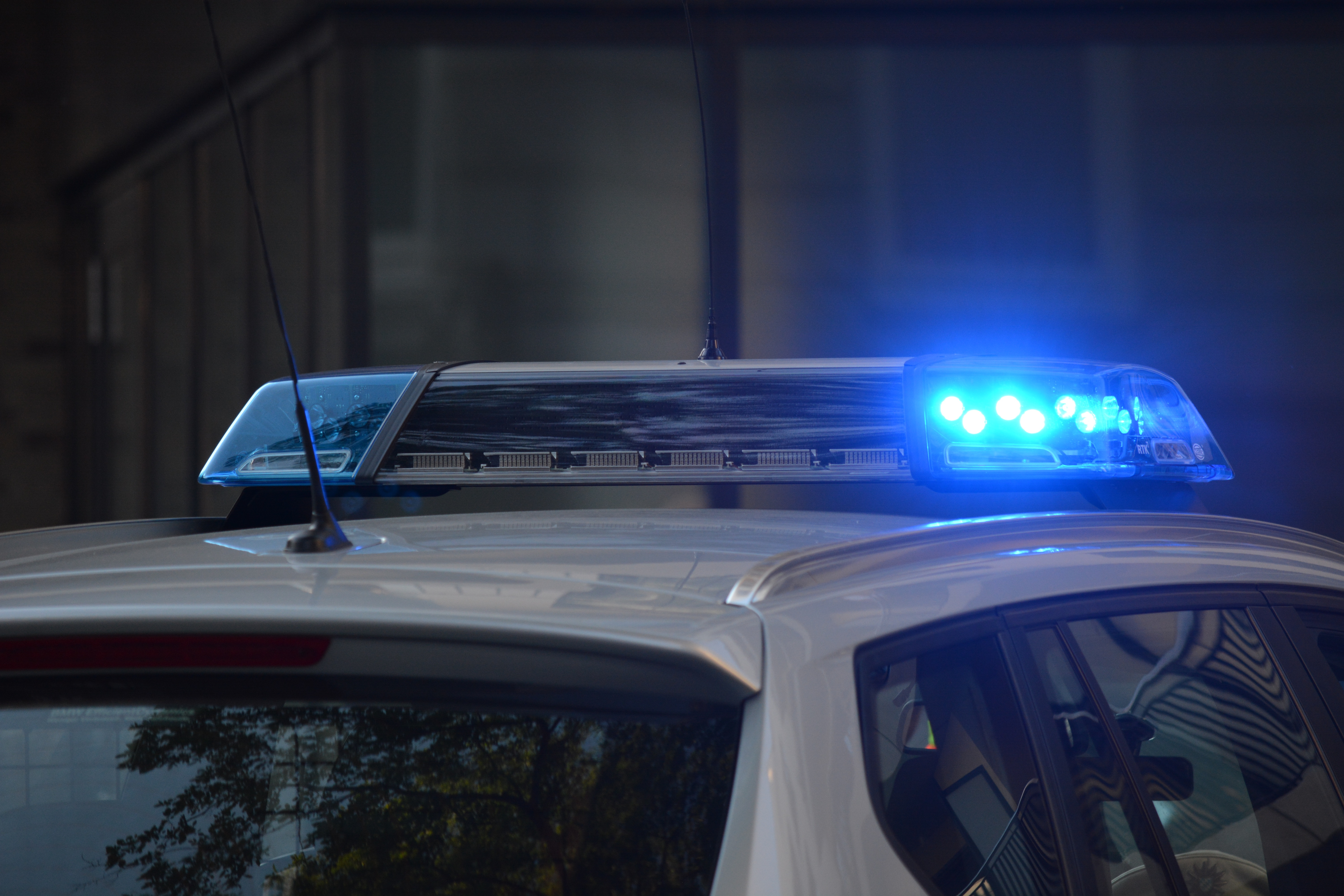 Blue emergency lightbar model Hella RTK 7 seen flashing on a vehicle